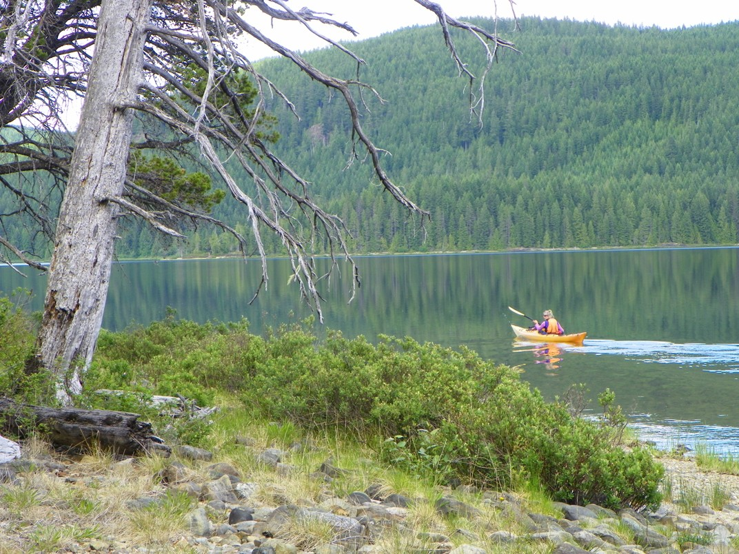 Kayaking on Brewster Lake part of the Sayward Forest Canoe Route in Campbell River, on Vancouver Island British Columbia